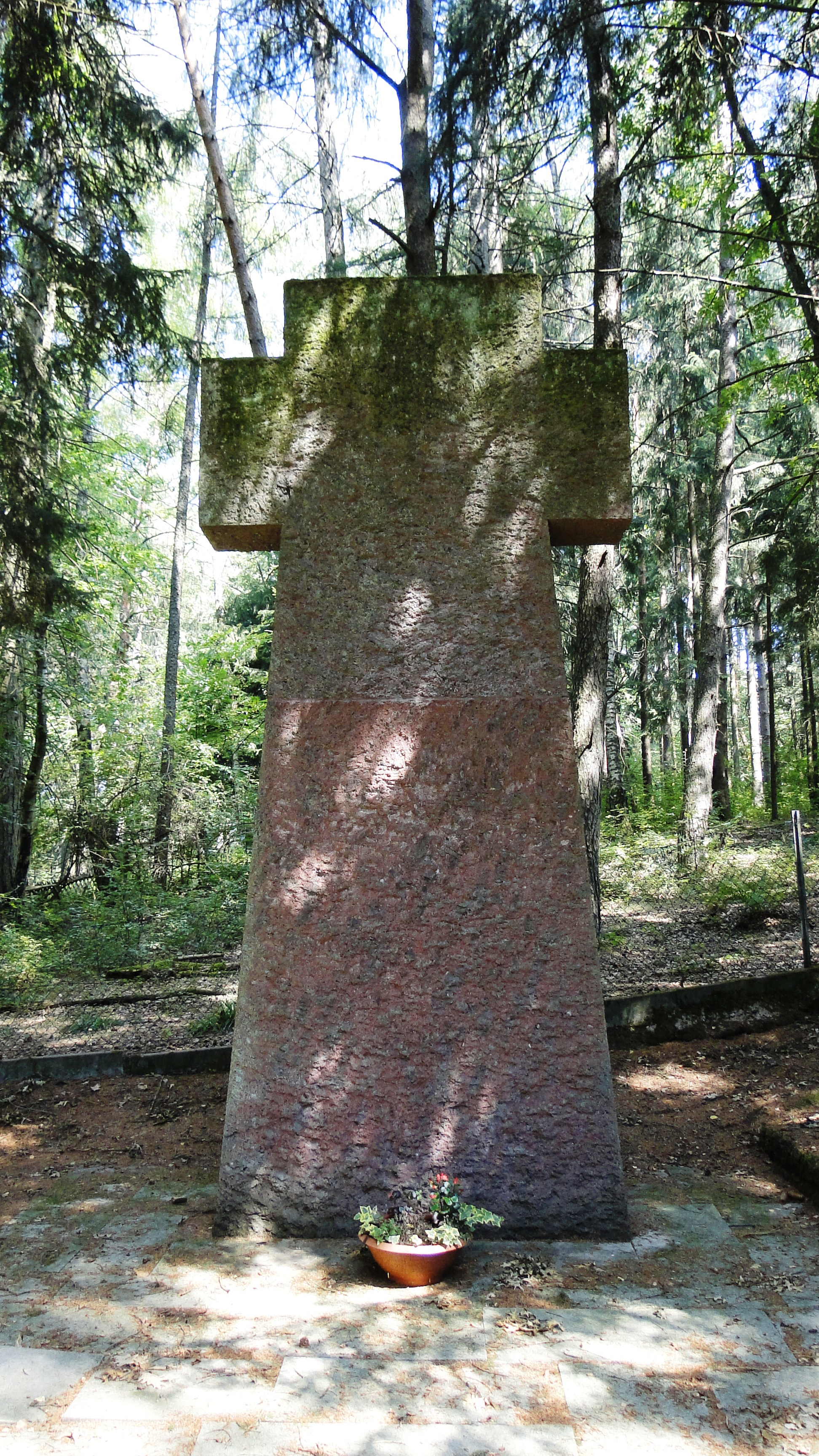 Memorial at the Heimatvertriebenenfriedhof near Schullandheim Wegscheide, Bad Orb, Hesse, Germany, former location of Stalag IX-B